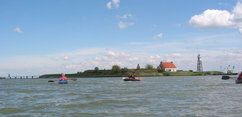 Vuurtoreneiland (Lighthouse island), one of the fortresses of the Stelling van Amsterdam, with folding kayaks